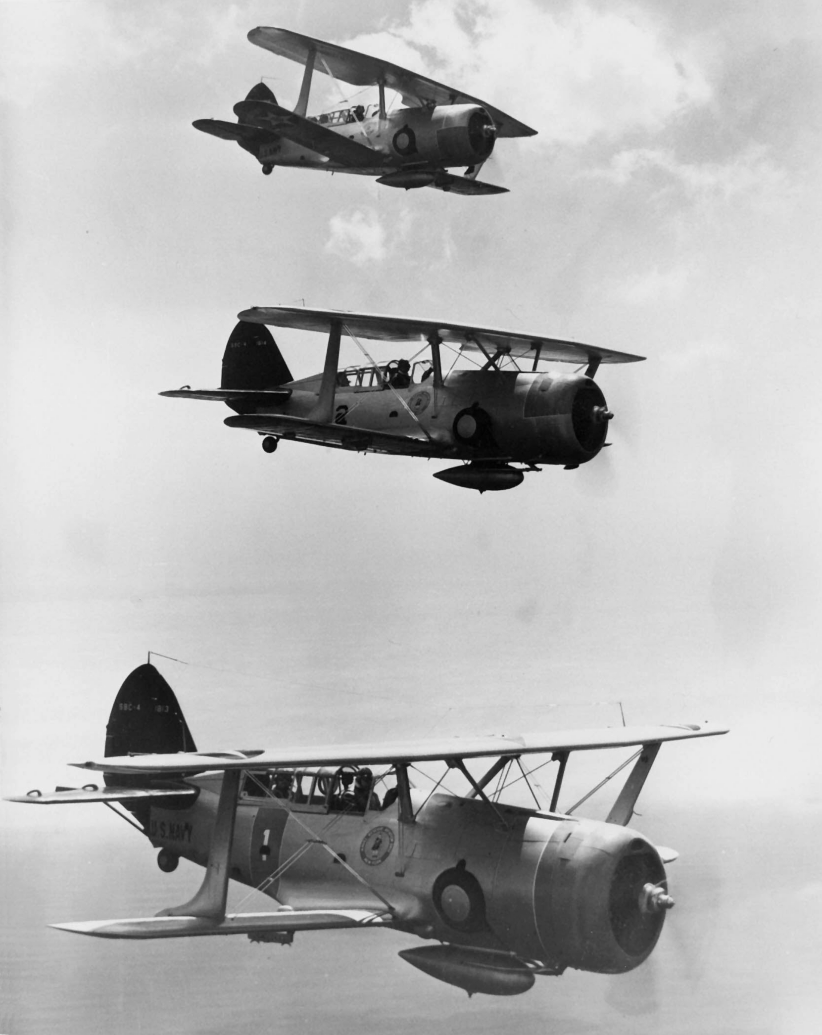 A Formation of three U.S. Navy Curtiss SBC-4 Helldiver assigned to Naval Air Reserve Air Base New York, Floyd Bennett Field, in flight. Note the NRAB New York insignia on the fuselages of the aircraft.